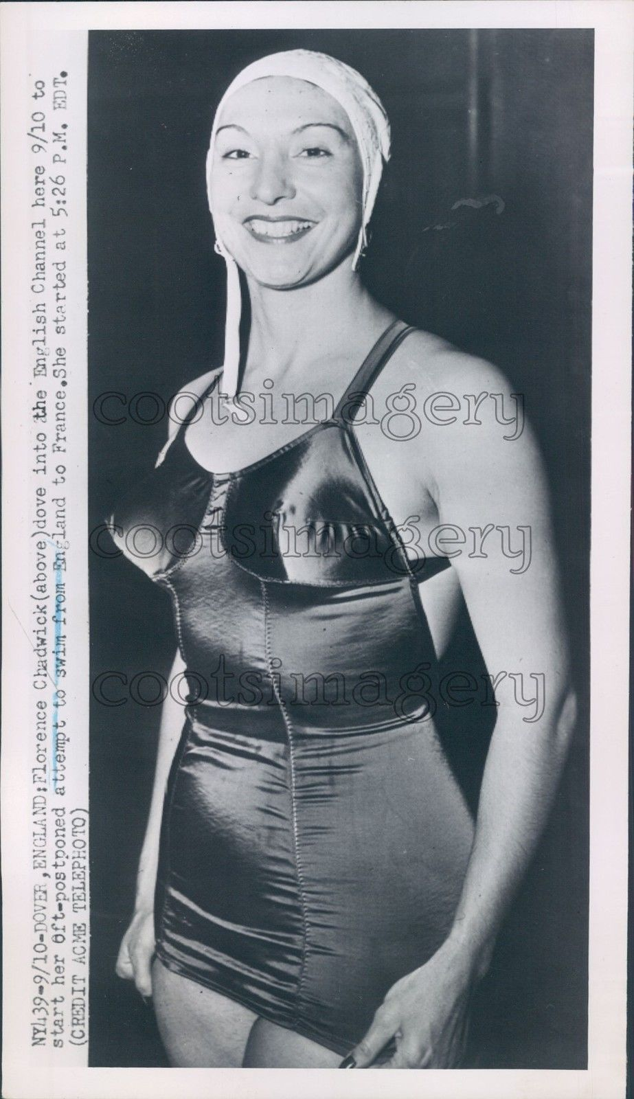 1951 English Channel Swimmer Florence Chadwick Wearing Swimsuit Press Photo